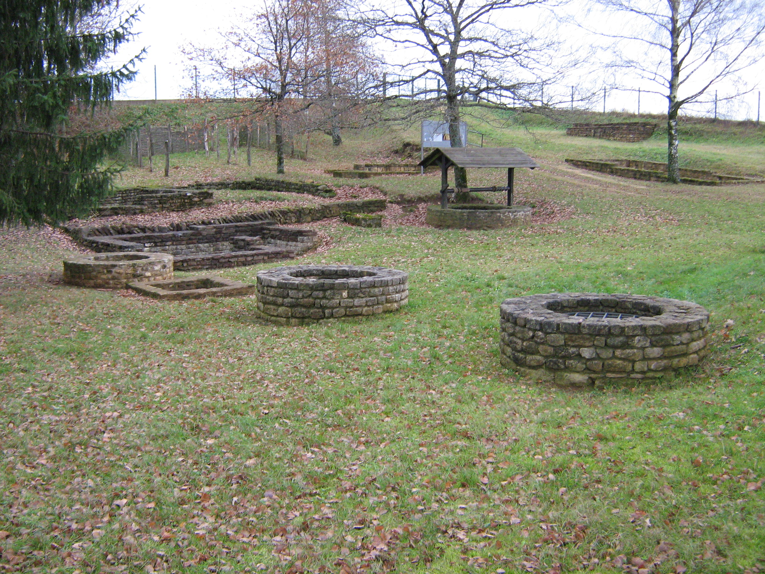 Titelberg, a Celtic settlement, Petange, Luxembourg Part of the excavated residential area